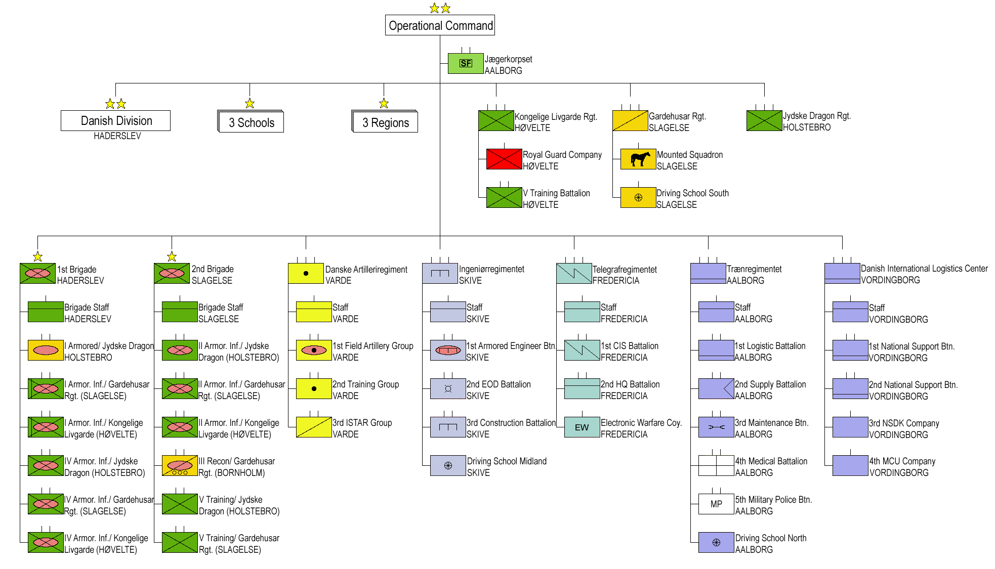 Structure of the Royal Danish Army since 2011